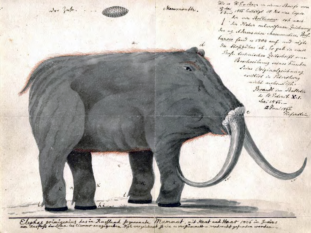 Copy of the first attempt at restoration of the Adams mammoth. The original has been lost, but this copy (with the handwriting of Johann Friedrich Blumenbach) and others survive.